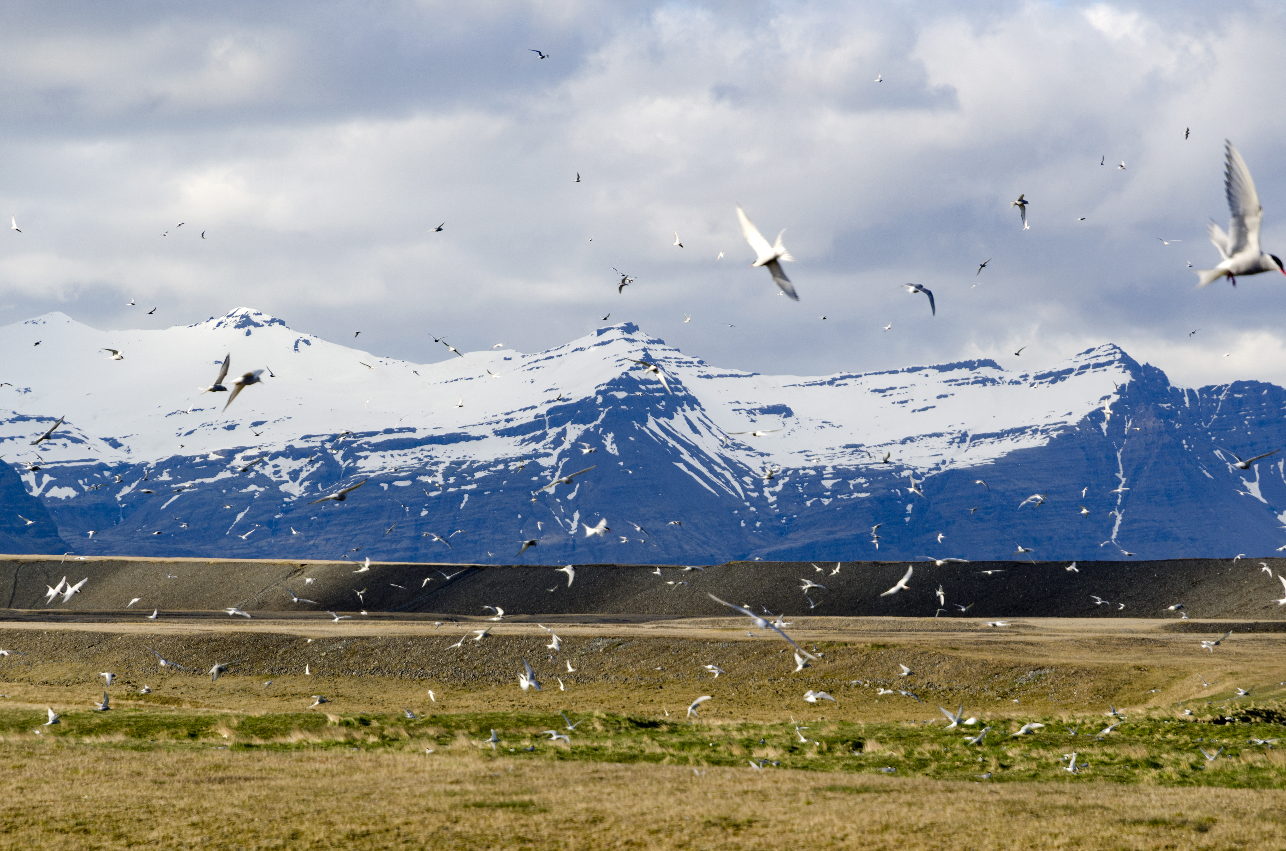 Arctic tern nesting on Iceland, Jökulsárlón